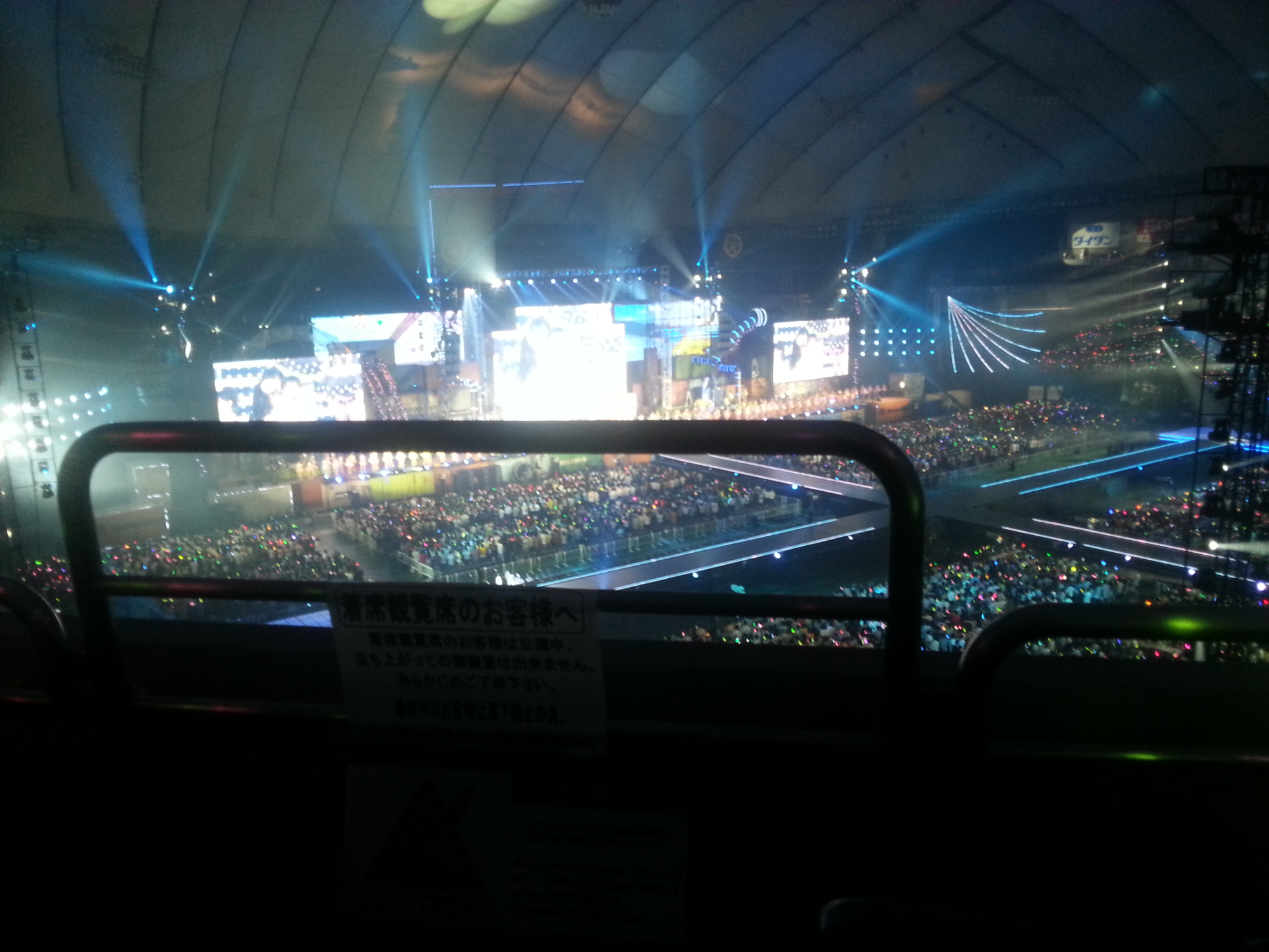 AKB48 performing at their 2013 Summer Dome Tour in the Tokyo Dome. Tokyo, Japan.